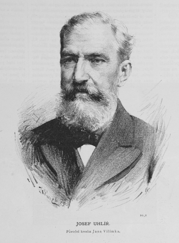 Portrait of Josef Uhlíř (1822-1904), Czech high-school teacher and poet.